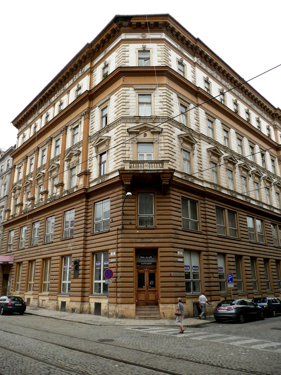 Czech National House in Olomouc, Czech Republic. Architect: Karel Starý starší